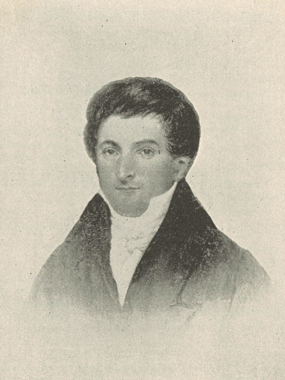 Portrait